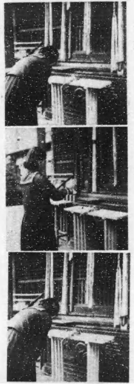 A prewar girl in sailor uniform bows twice from the waist and claps her hands twice and bows once more after offering a branch of the sacred tree to Shinto gods. The top picture shows twice bowing, the middle shows twice clapping, the bottom shows one more bowing.